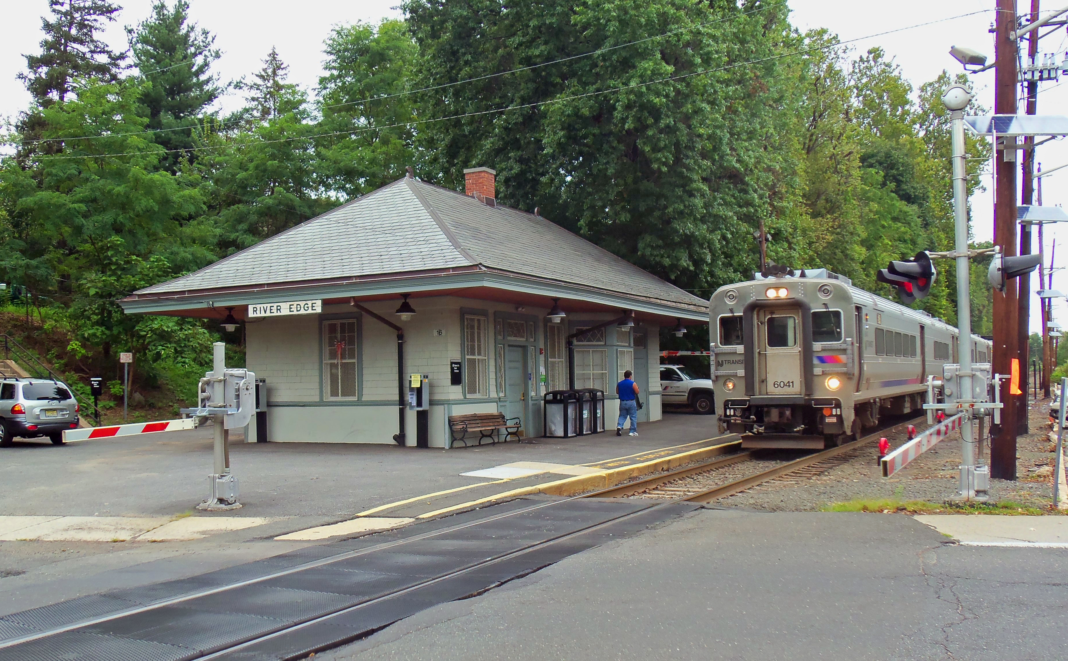 Hoboken-bound Pascack Valley Line train arriving at station in River Edge, NJ, USA